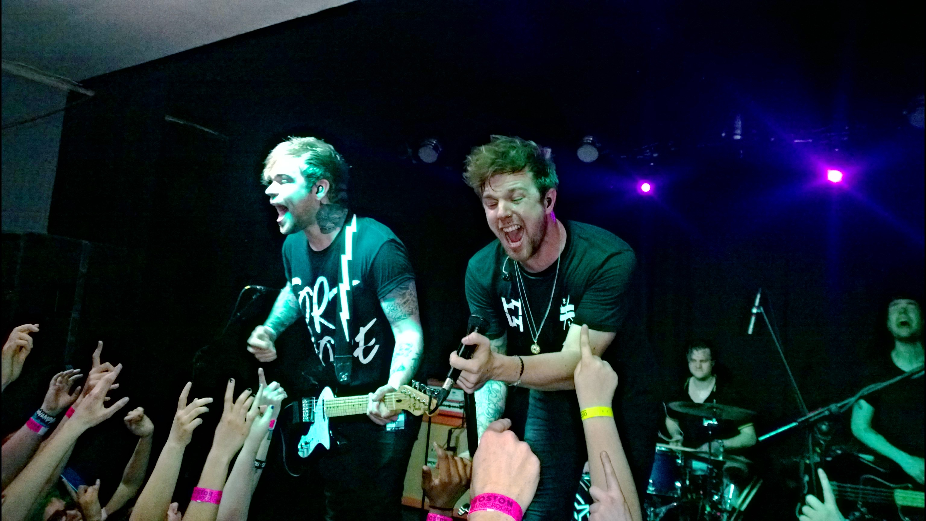 Blitz Kids, Boston Music Room, London